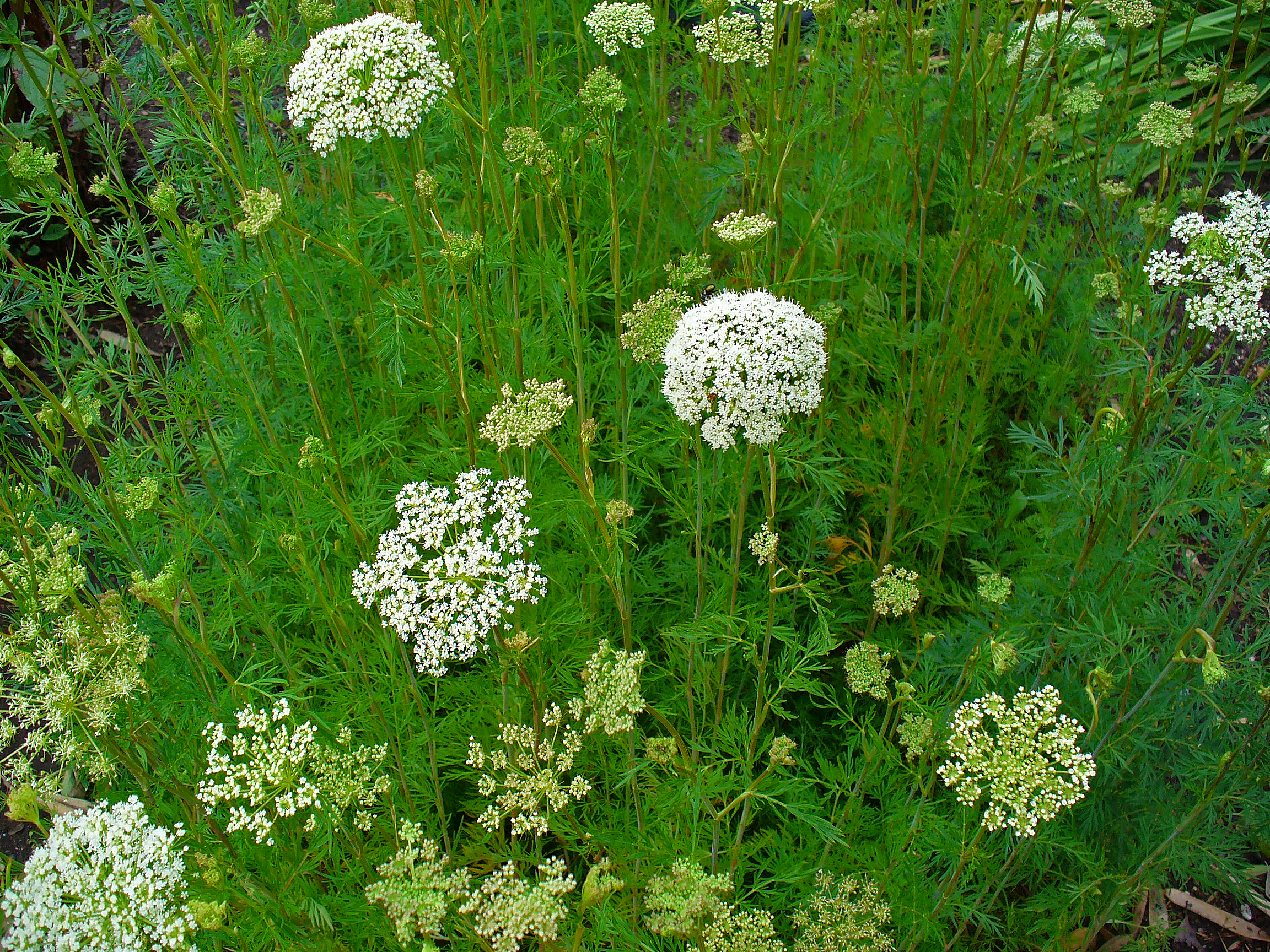 Cnidium dubium, Apiaceae, habitus; Botanical Garden KIT, Karlsruhe, Germany.